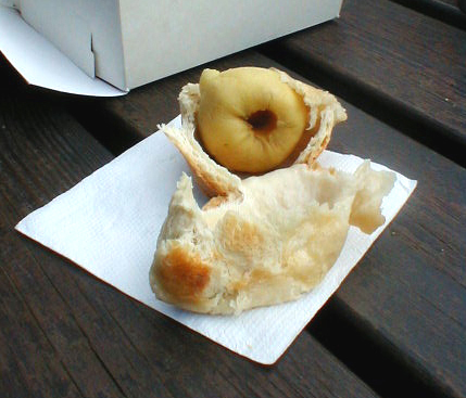 apple cooked in a dough (so-called "råbosse" in Walloon : inside. Walon: Ene råbosse ådvins.